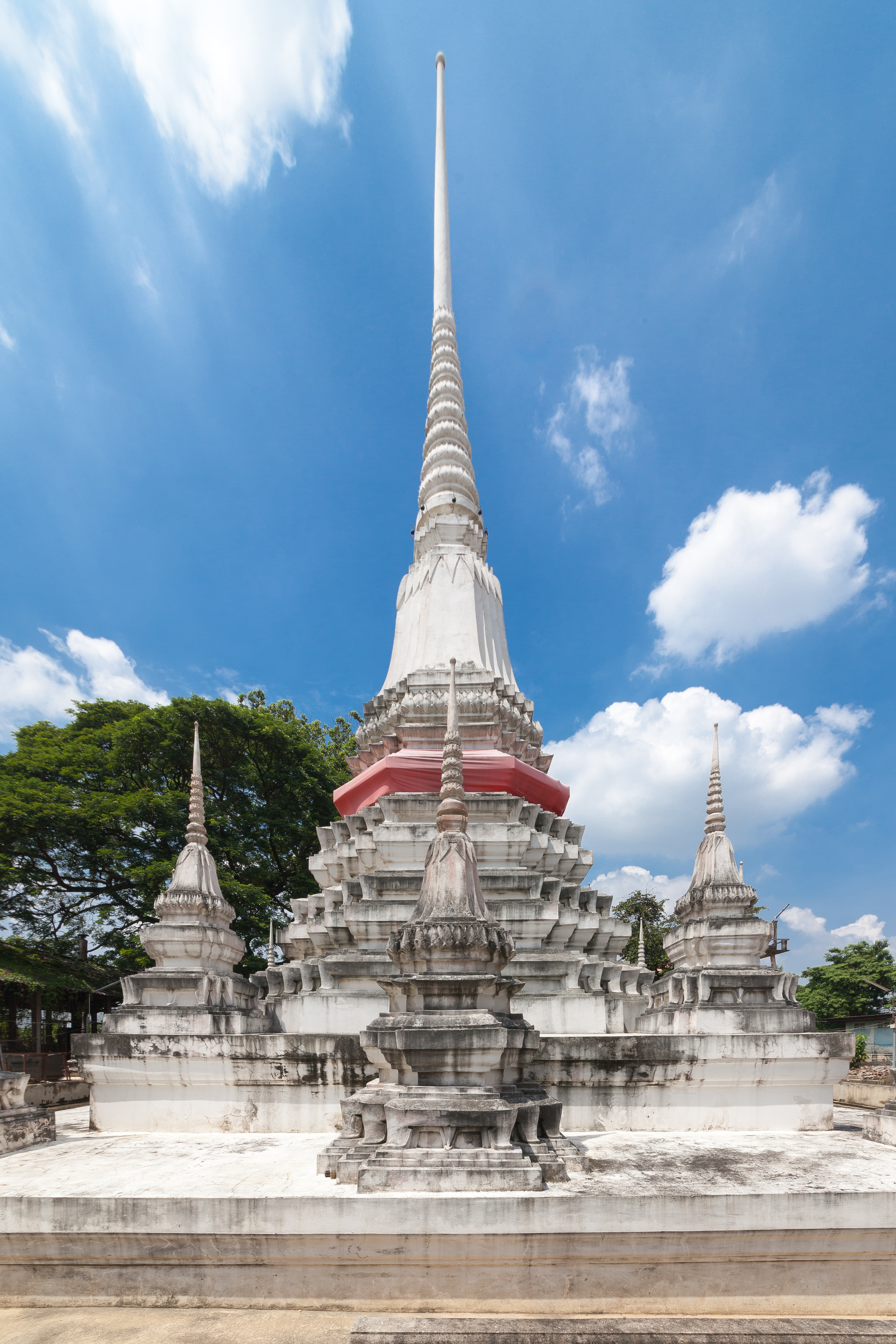 Wat Saothongthong at Koh Kret, Nonthaburi, Thailand.